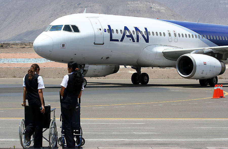 LAN Airlines' Airbus A320 (CC-COT) and some members of its ground staff at the Arequipa Airport